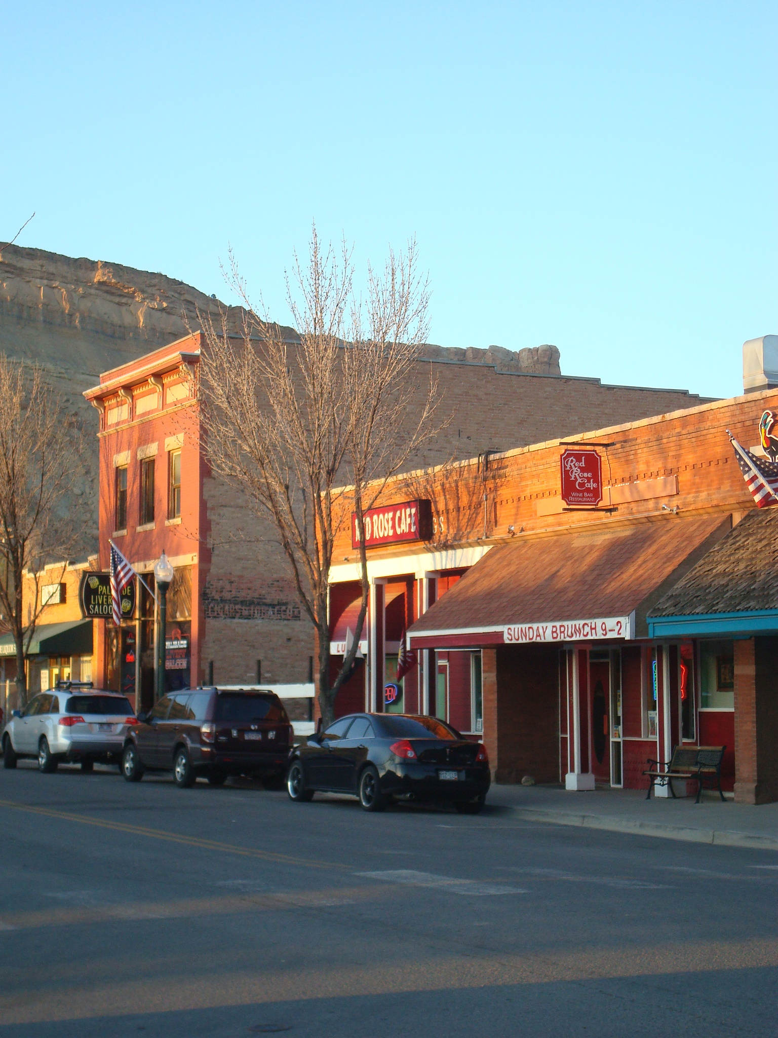 Sun sets on the Bookcliffs and Main Street Palisade, Colorado, United States